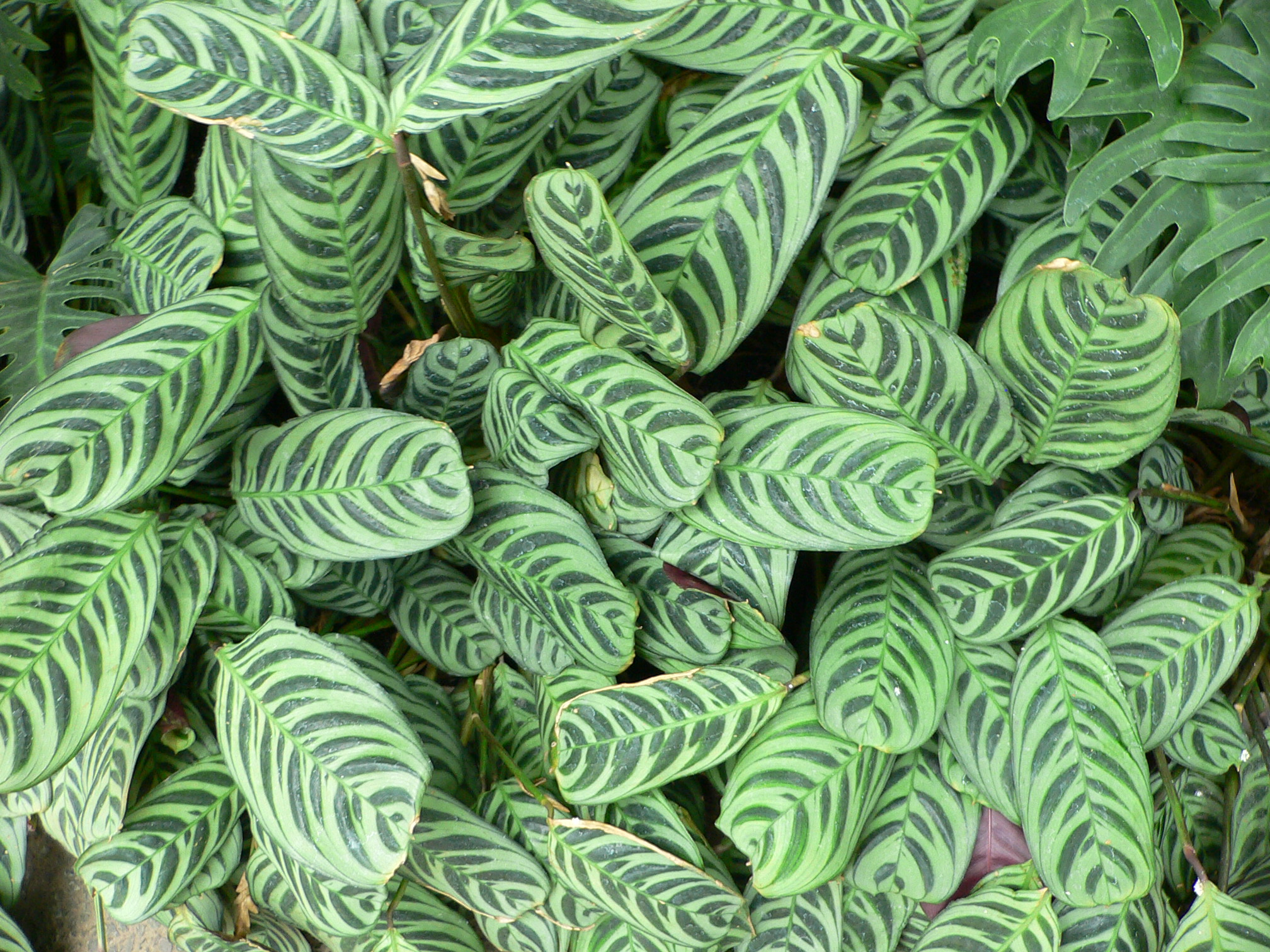 Pictures taken by myself at Longwood Gardens